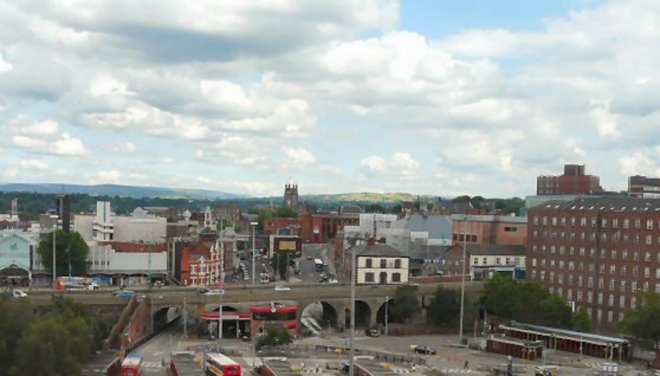 Stockport bus station, Stockport, Greater Manchester, England as viewed from the viaduct. Another view. In mid-distance is St Mary's church and to the right is the Hat Museum.